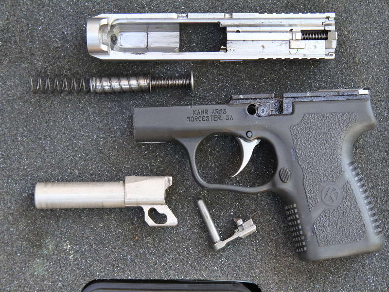 The Kahr CM9 field strip for routine cleaning